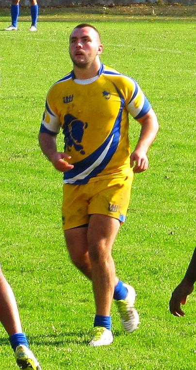 Rugby Union player Constantin Pristăviță during a match between his team, CSM Baia Mare, and rivals CSM București.